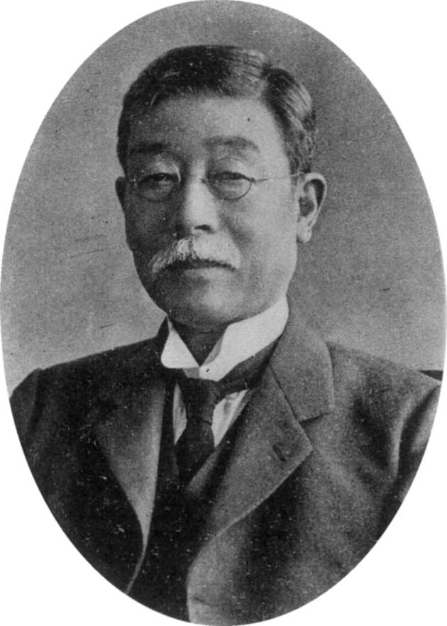 Kikuchi Hisato.